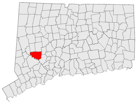 Location of Southbury, Connecticut